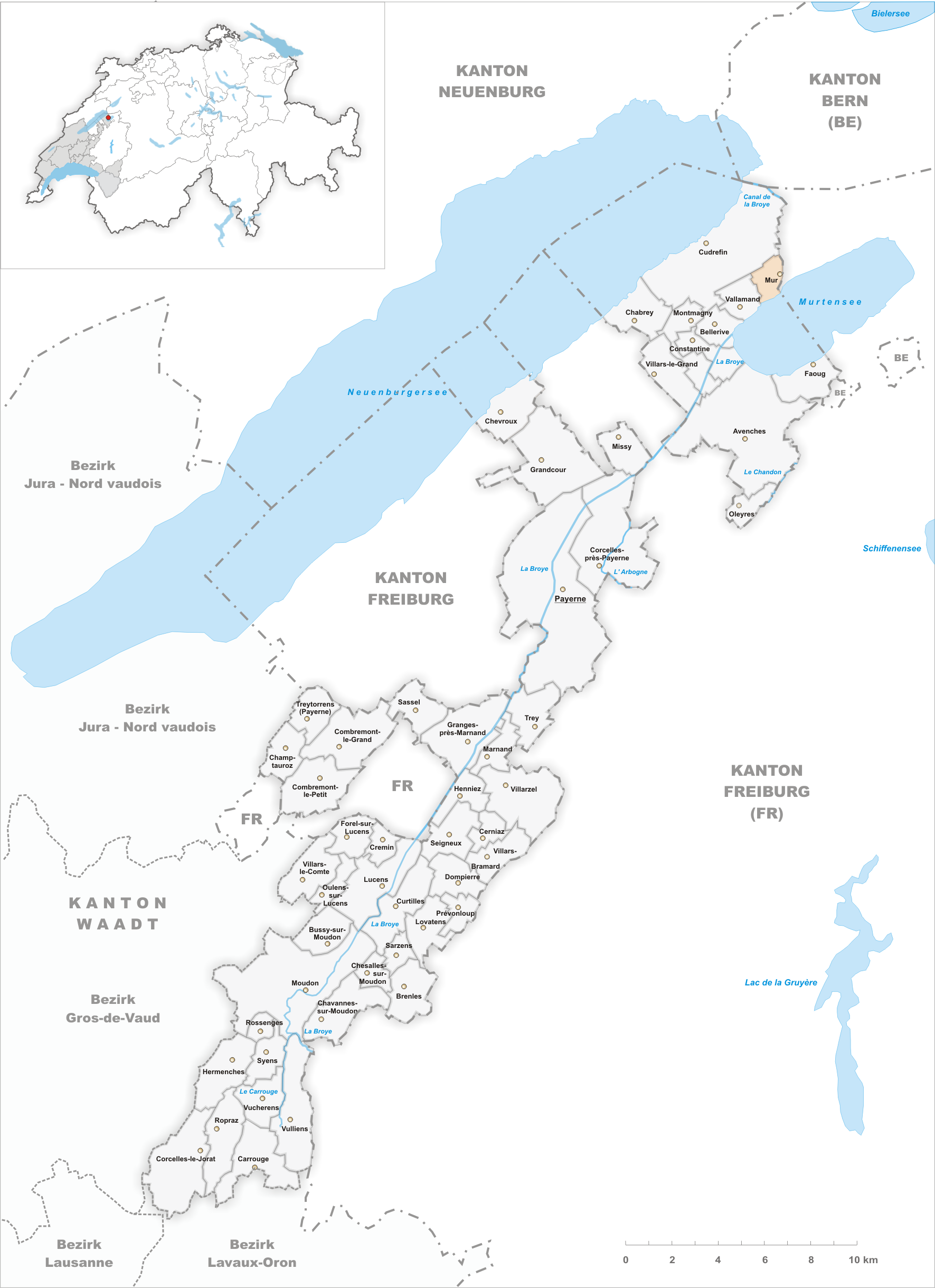 Municipality Mur